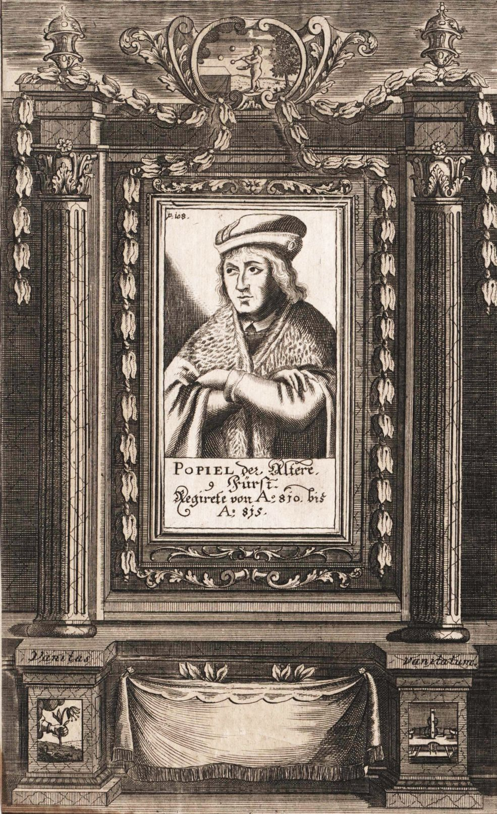 Prince Popiel ІІ (or Duke Popiel) was a legendary 9th century ruler of the West Slavic ("proto-Polish") tribe of Goplans and Polans and the last member of the pre-Piast dynasty, the Popielids.